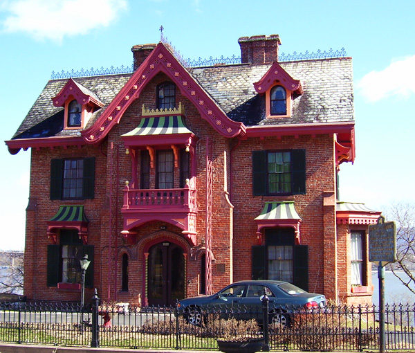 Warren House, Newburgh - New York. Gothic revival style house. A Historic district contributing property and on the National Register of Historic Places. Photographed by Daniel Case 2006-02-27 Category:Images of New York